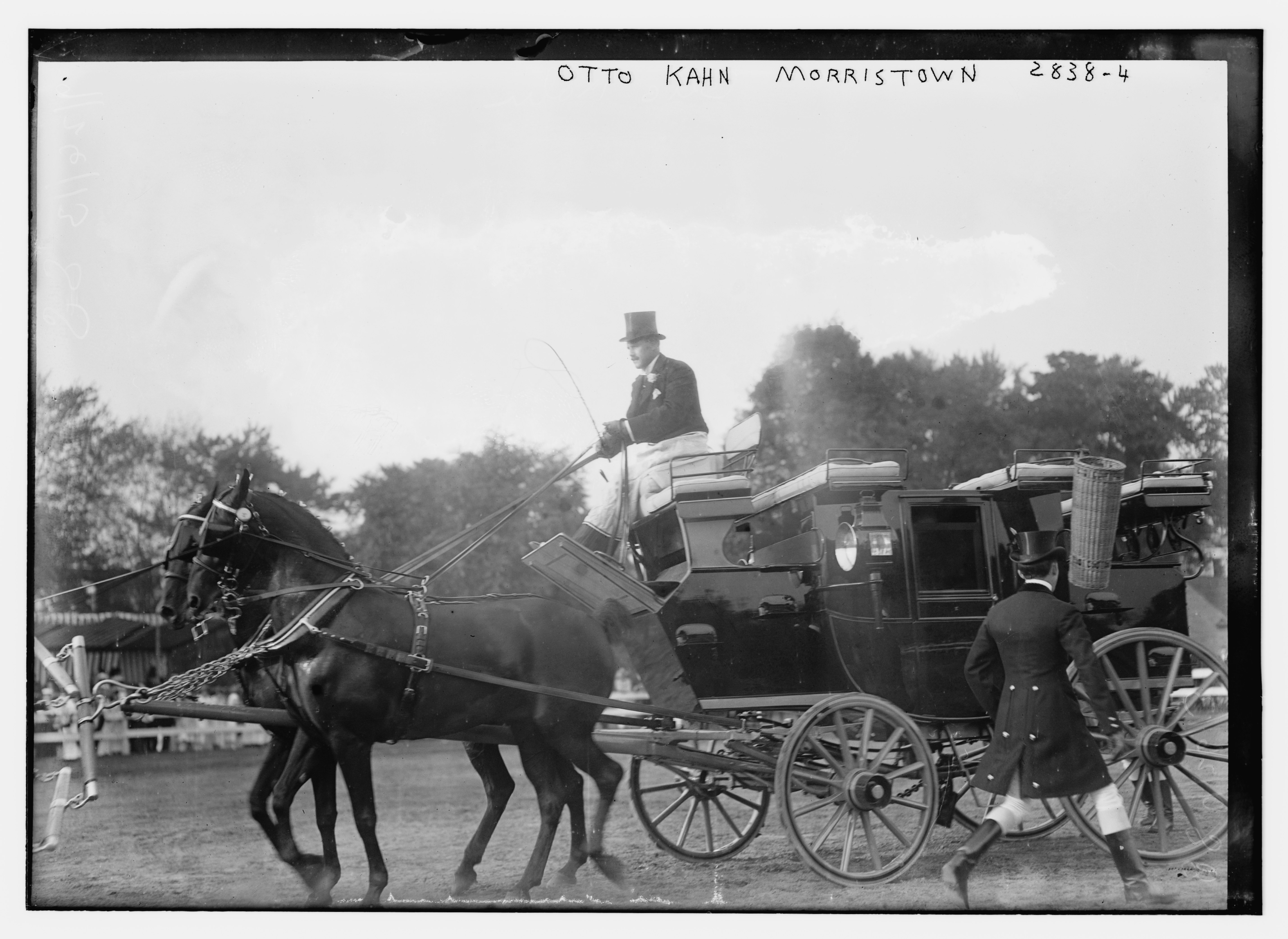 Title: Otto Kahn, Morristown Abstract/medium: 1 negative : glass ; 5 x 7 in. or smaller.